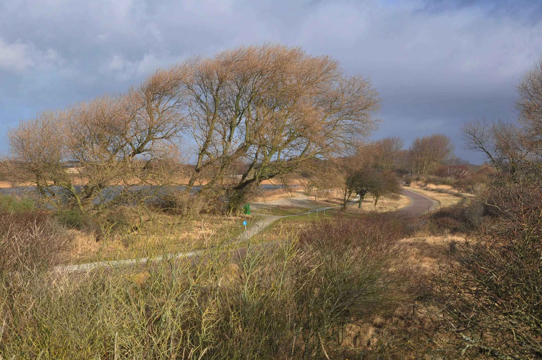 Meijendel is a dune area between Wassenaar and the North Sea coast (Province of South Holland, Netherlands). it is a popular receation area for walking and cycling. Picture taken in mid-winter.